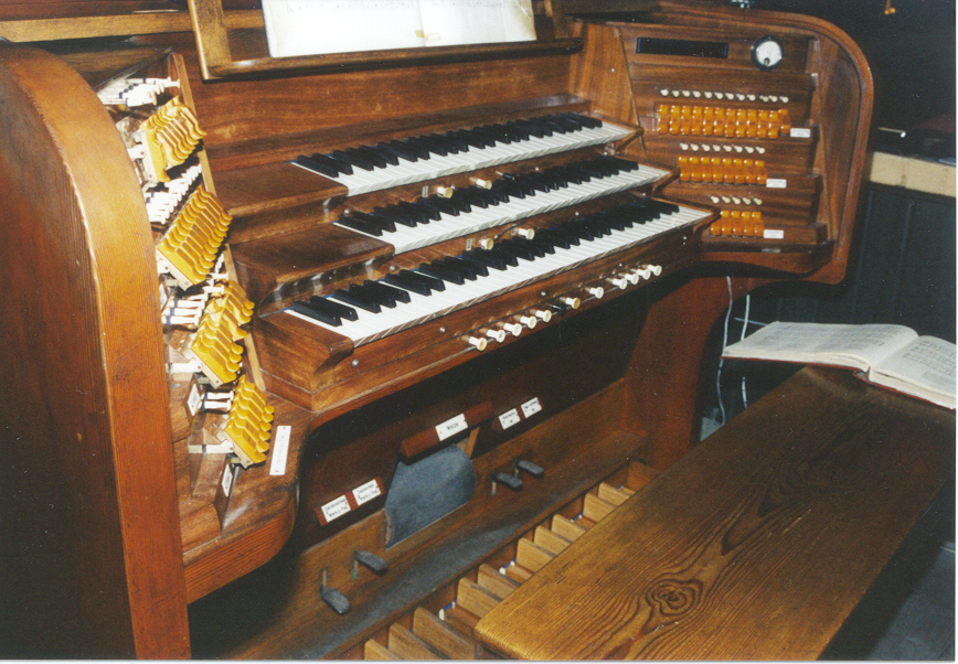 Console of the organ of Alt-Ottakring parish church, Vienna.